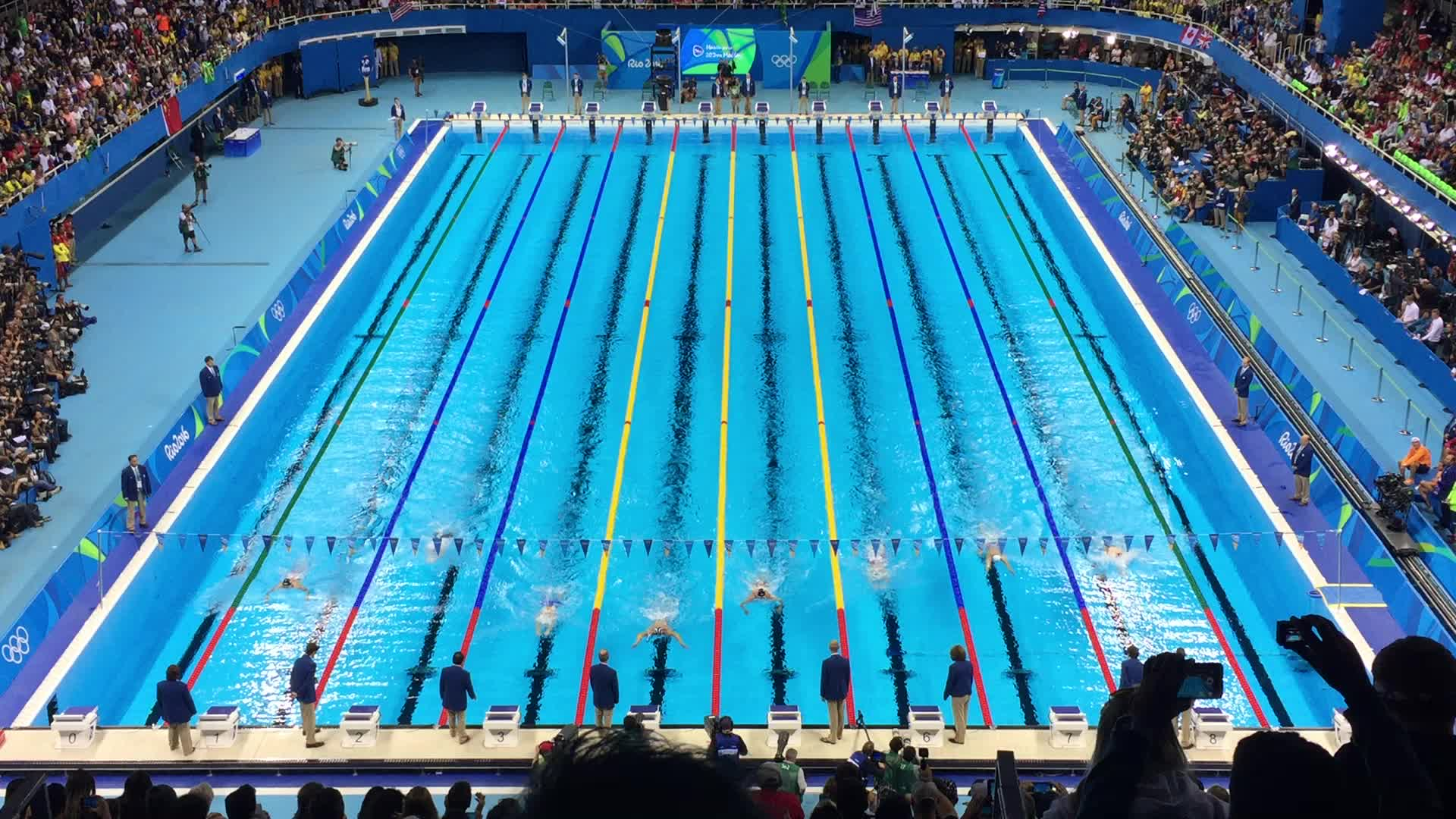 Rio 2016 Summer Olympics